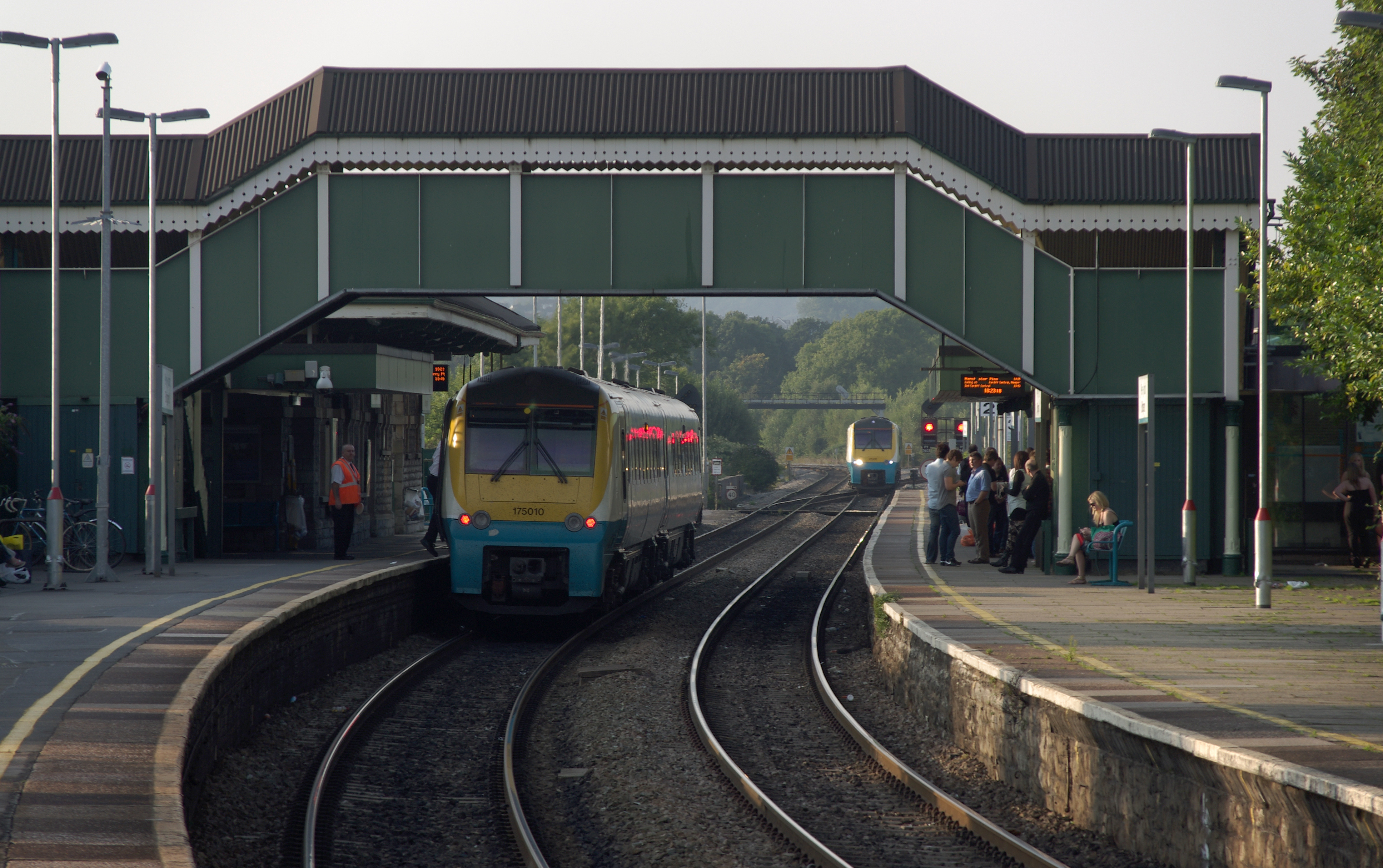 Arriva Trains Wales 175010 stops at Bridgend railway station with a service from Manchester Piccadilly to Milford Haven, while in the background 175011 arrives with a service in the opposite direction.